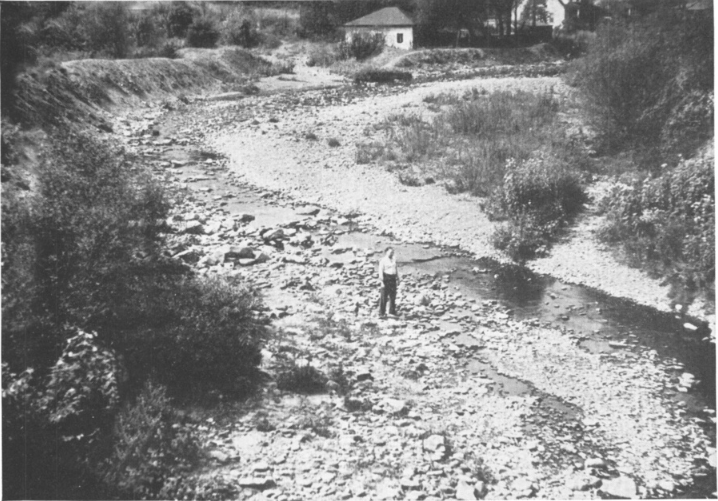 Leggetts Creek near the confluence of the tributary Leach Creek, 4300 feet upstream of its mouth.